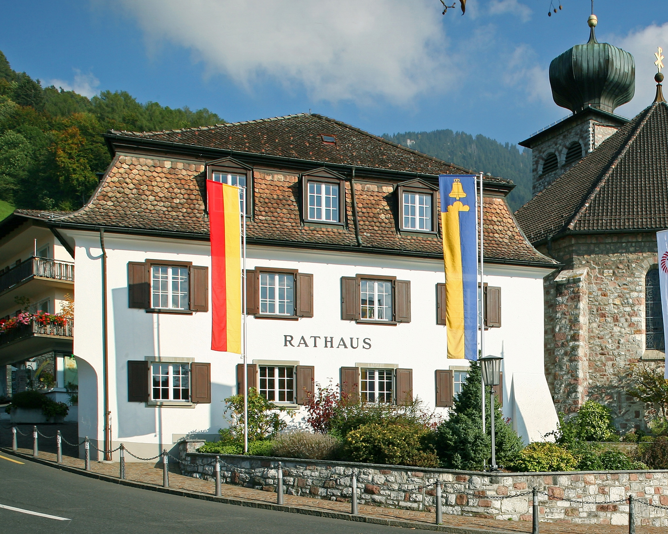 Town hall of Triesenberg, principalitiy of Liechtenstein. With the flag of the Princely House and the flag of Triesenberg.